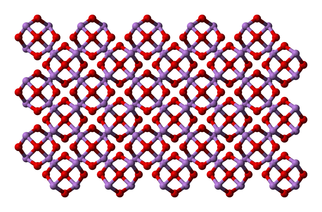 Ball-and-stick model of the packing of As4O6 molecules in the crystal structure of arsenolite, the low-temperature, cubic form of arsenic trioxide, As2O3. X-ray crystallographic data from P. Ballirano, A. Maras (2002). "Refinement of the crystal structure of arsenolite, As2O3". Z. Krist. 217: 177-178.. Model constructed in CrystalMaker 8.1. Image generated in Accelrys DS Visualizer.